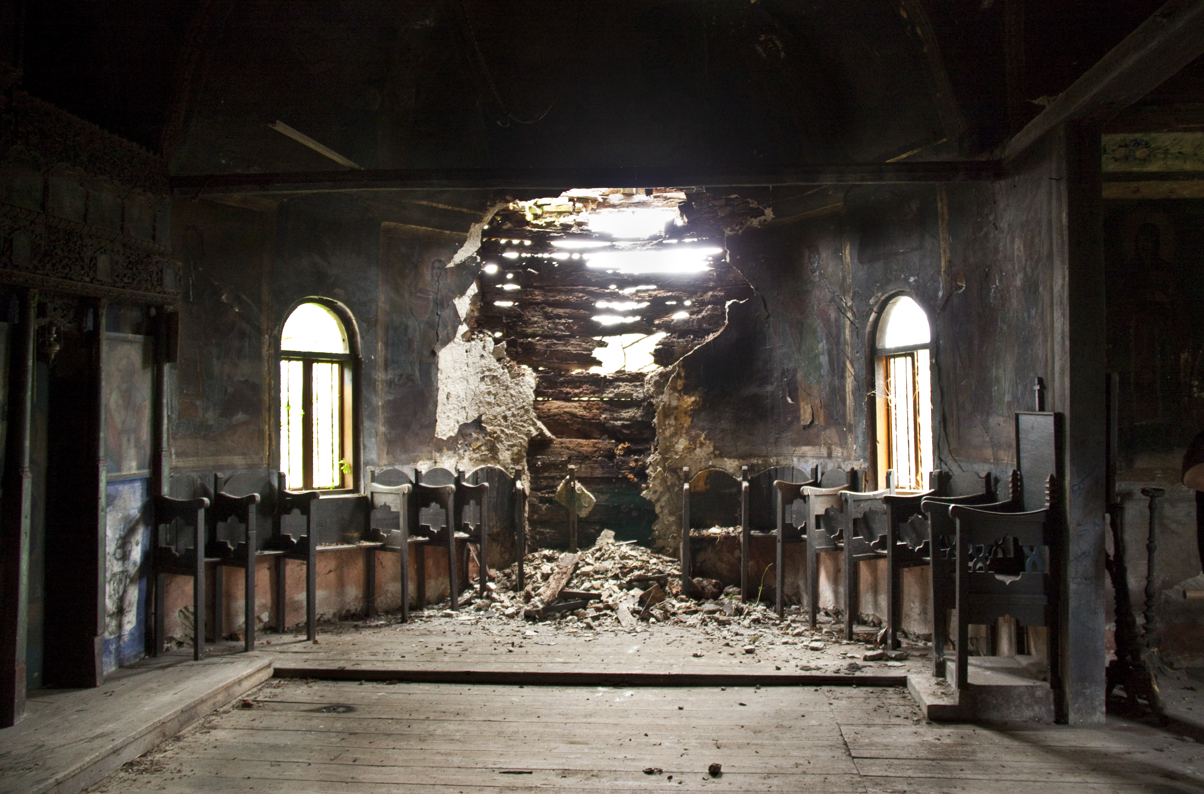 Şirineasa, Vâlcea county, Romania: the wooden church, inside nave, Southern apse.